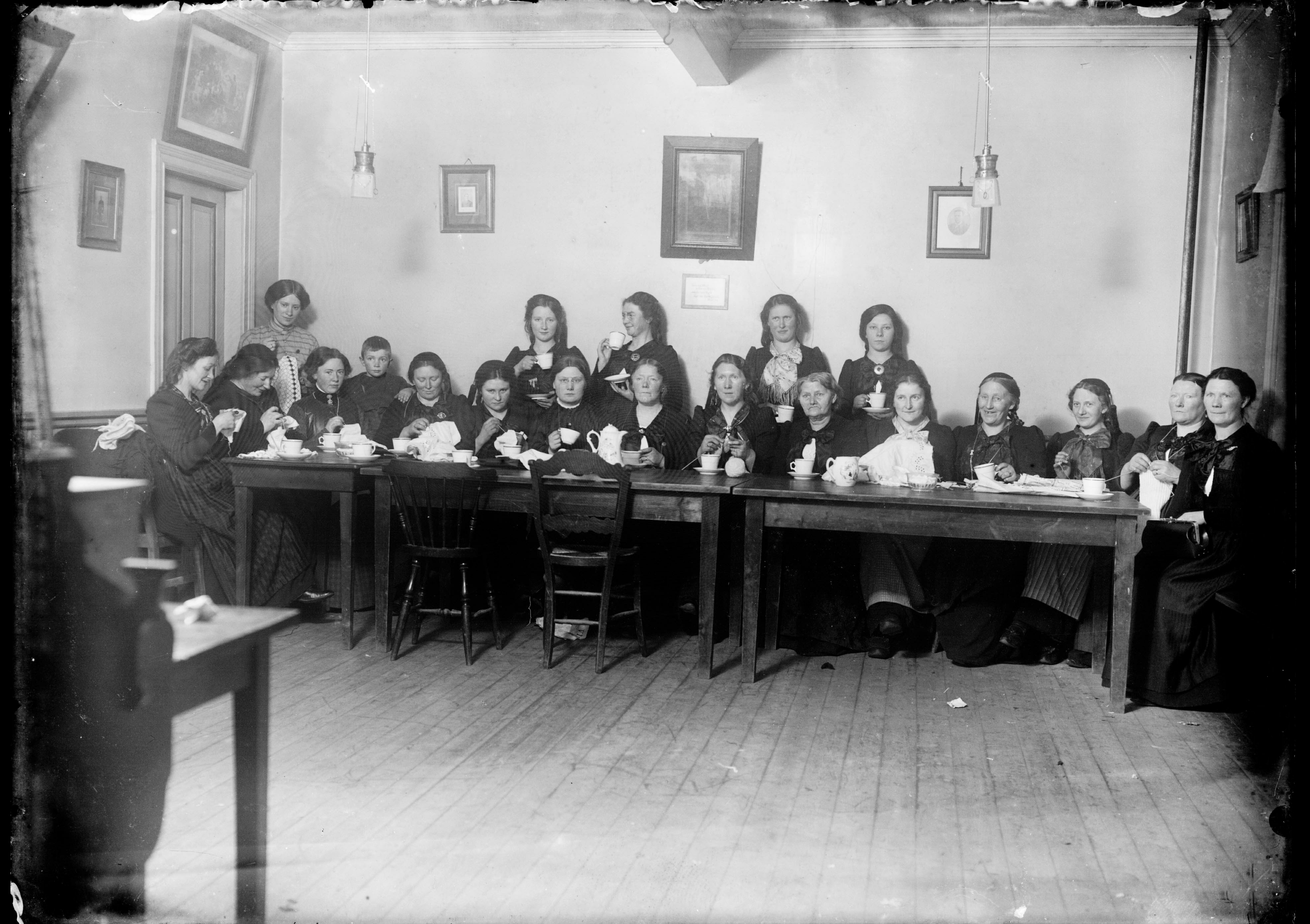 A group of women at a meeting of some sort in the 1910s in Reykjavík, Iceland. Guðrún Björnsdóttir (6th from the left) and Katrín Magnúsdóttir (7th from the left) were both members of Reykjavík City Council in the first half of the 1910s.